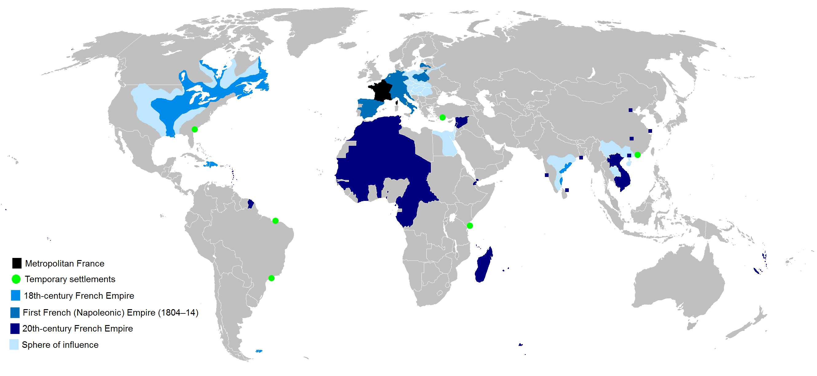 Territories ouccupied by France in various centuries